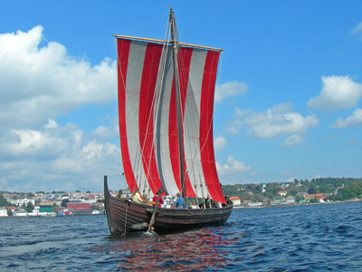 Vidfamne, Vikig ship